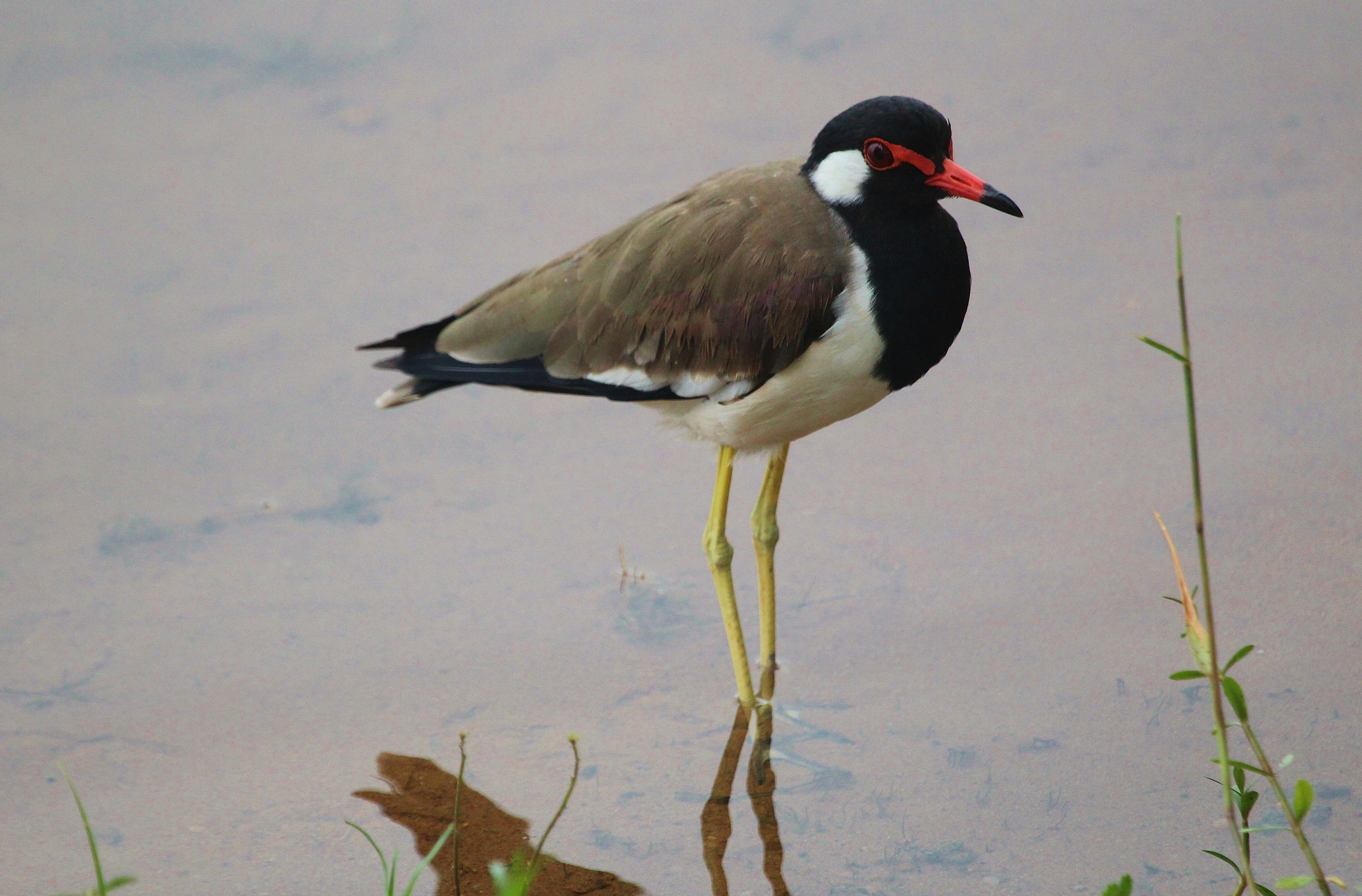 A red-wattled lapwing foraging near our hotel in Sri Lanka.